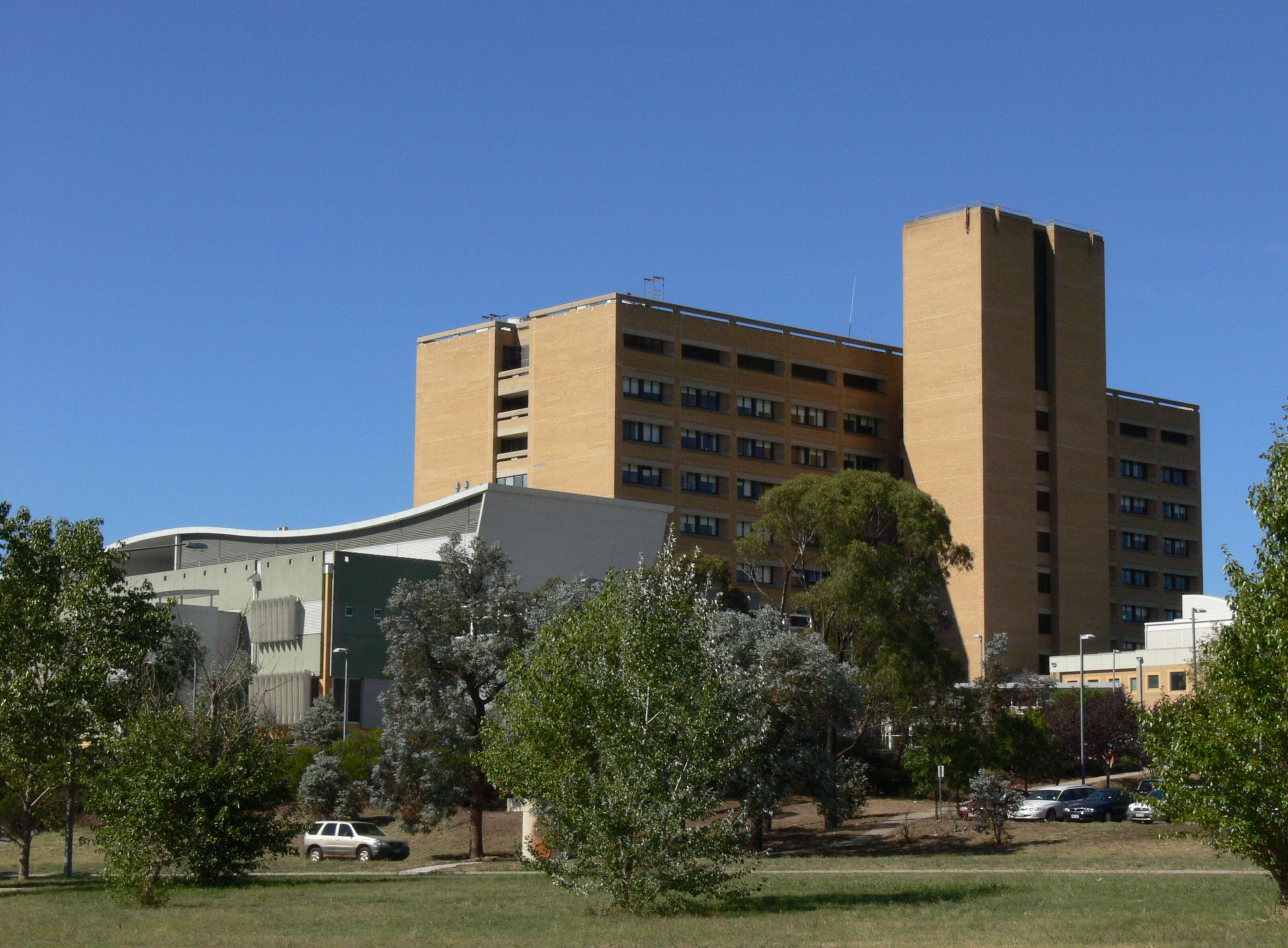 The Canberra Hospital, situated in Woden Valley. Previously known as Woden Valley Hospital before the demolition of the old Canberra Hospital.